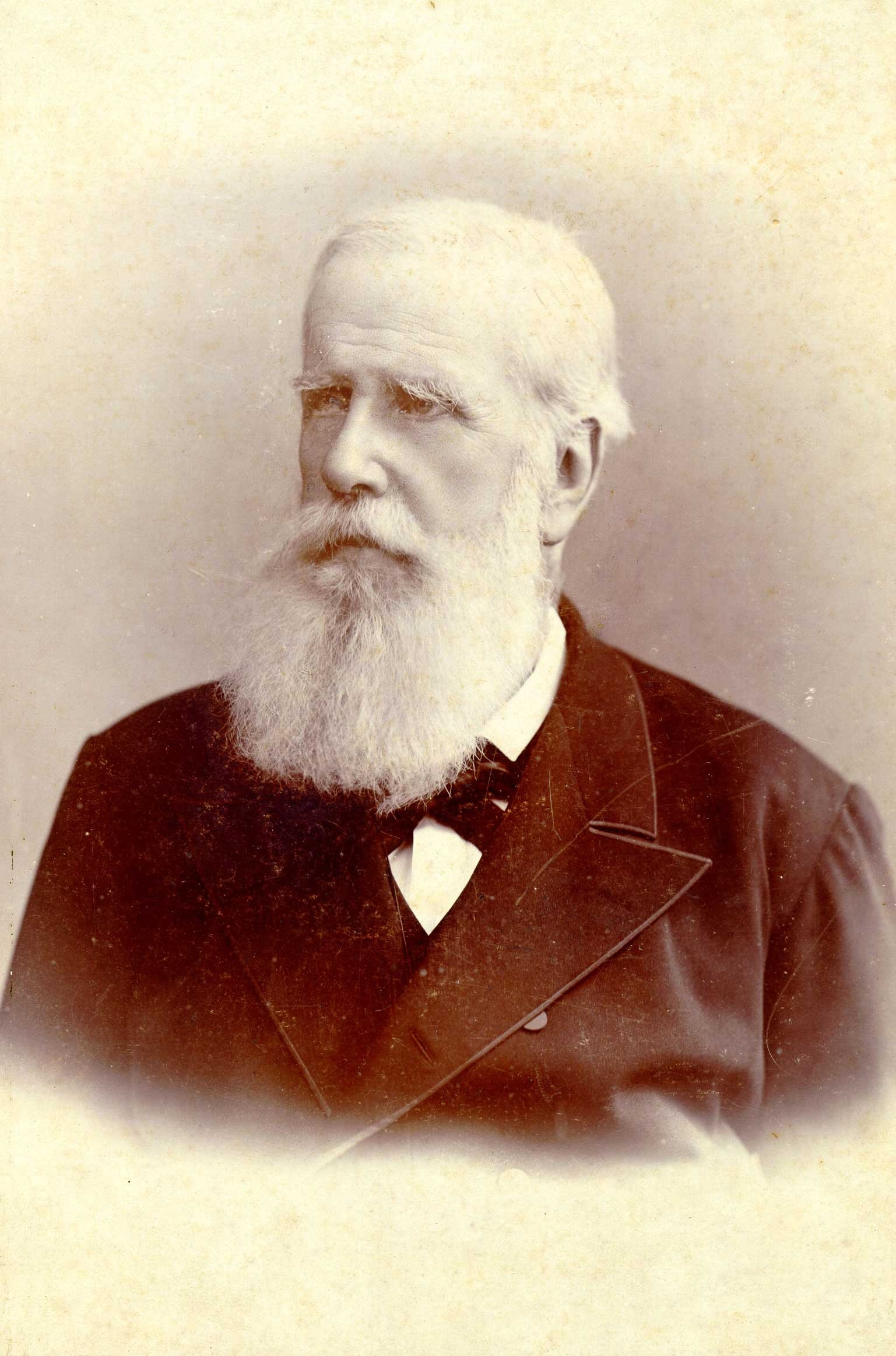 Emperor Pedro II of Brazil at age 61 in Baden-Baden, 1887.